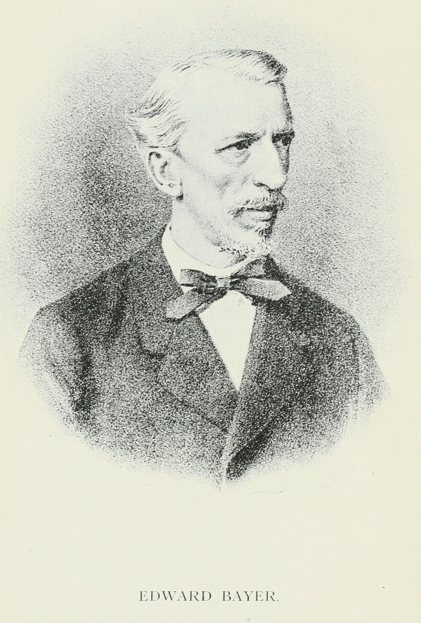 Eduard Bayer (1822–1908), German guitarist and composer, from Philip J. Bone, The Guitar and Mandolin (London, 1914).